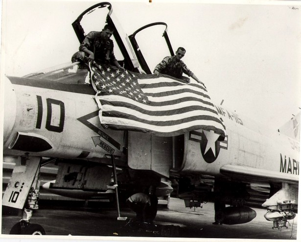 United States Marine Corps fighter pilot, Ed McGaa Oglala Lakota from Pine Ridge Indian Reservation and his co-pilot